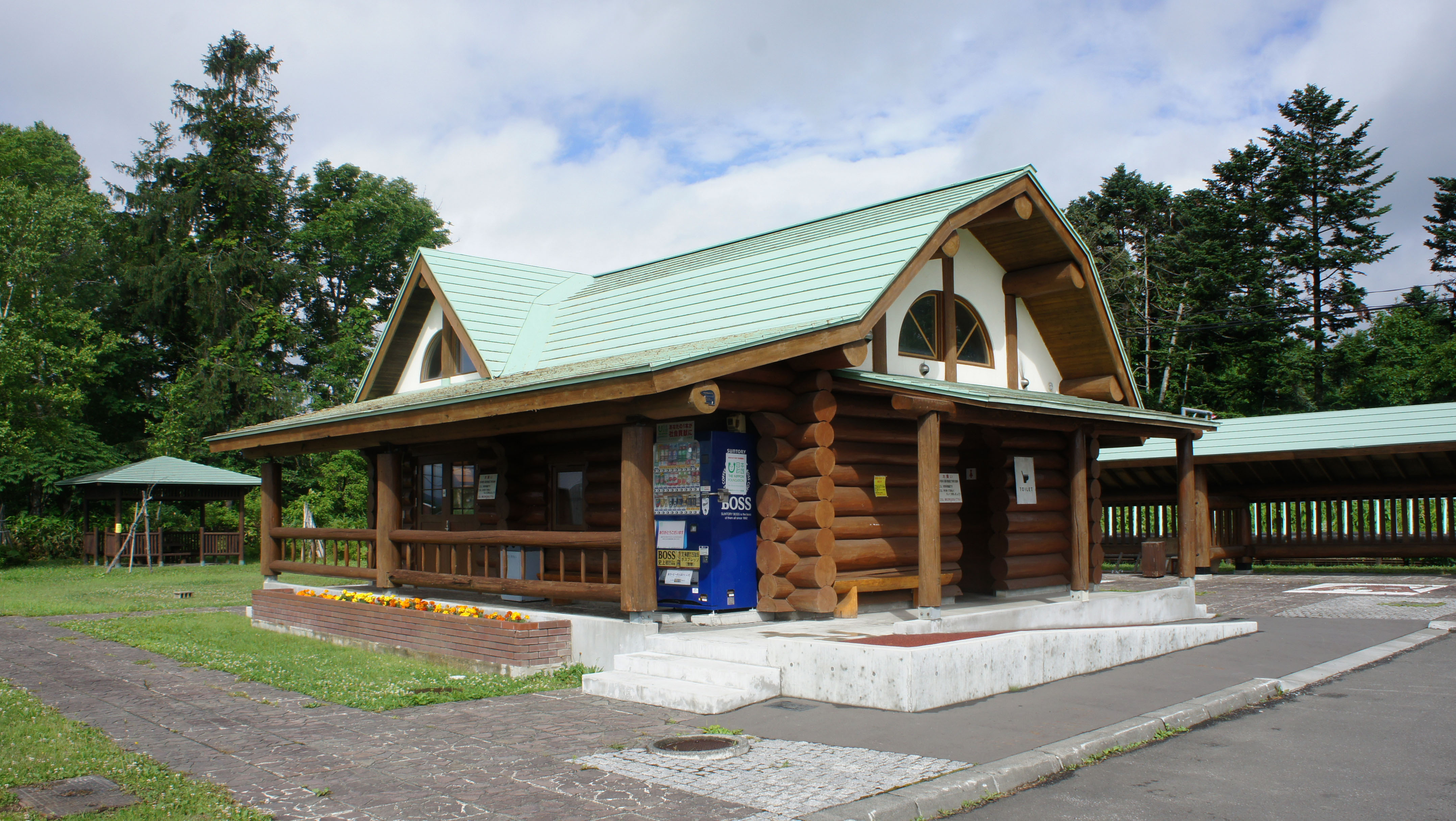 Station building of JR Sassho-Line Tsukigaoka Station